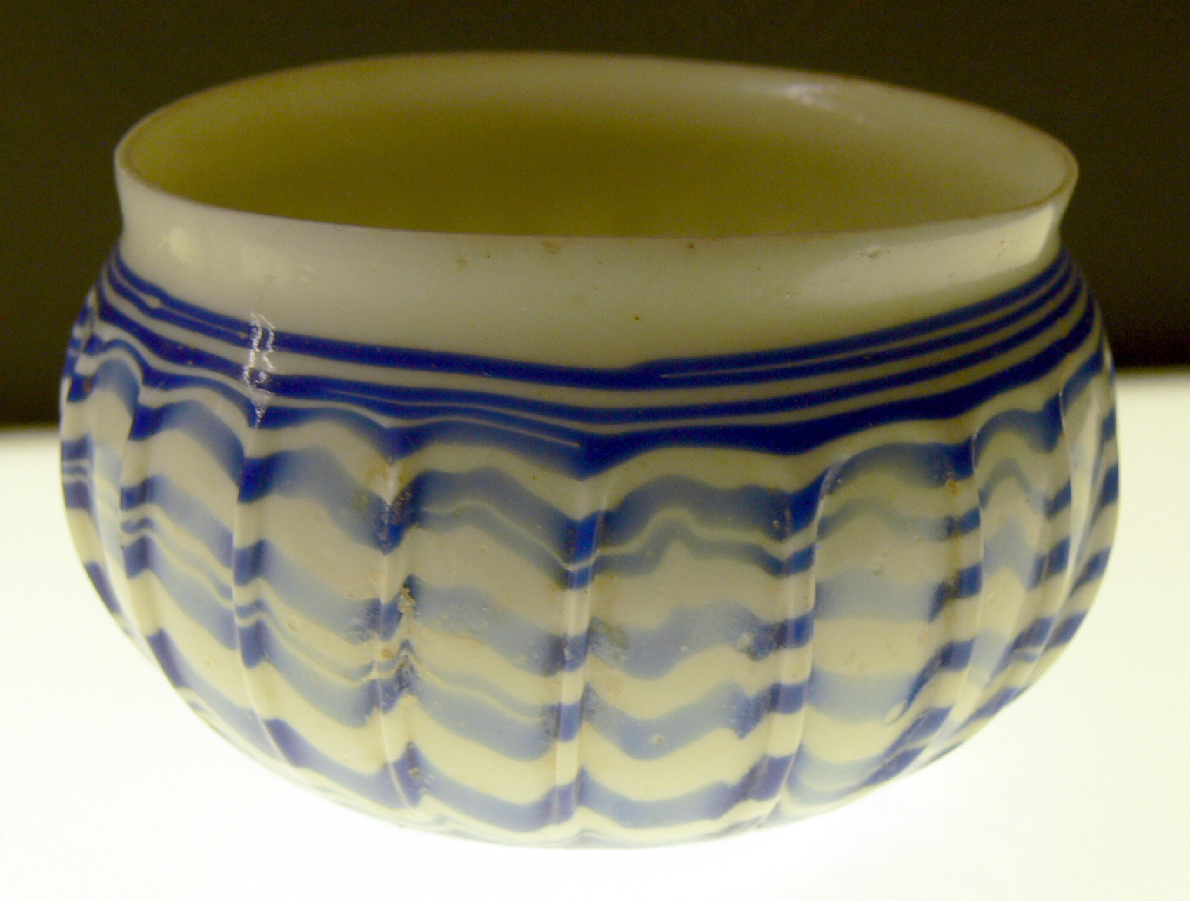 Pergamon Museum ( Berlin ). Exhibition "Roads of Arabia": Ribbed beaker ( 1st century AD ), blown glass probably from Italy, H. 6,5 cm Diam. 9 cm, from Qaryat al-Faw ( Department of Archaeology Museum, King Saud University, Riyadh ).